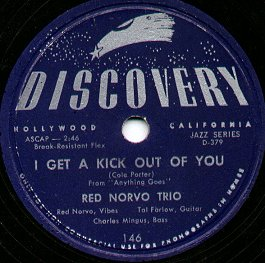 "Discovery Records" label from 78 record feturing Red Norvo Trio.